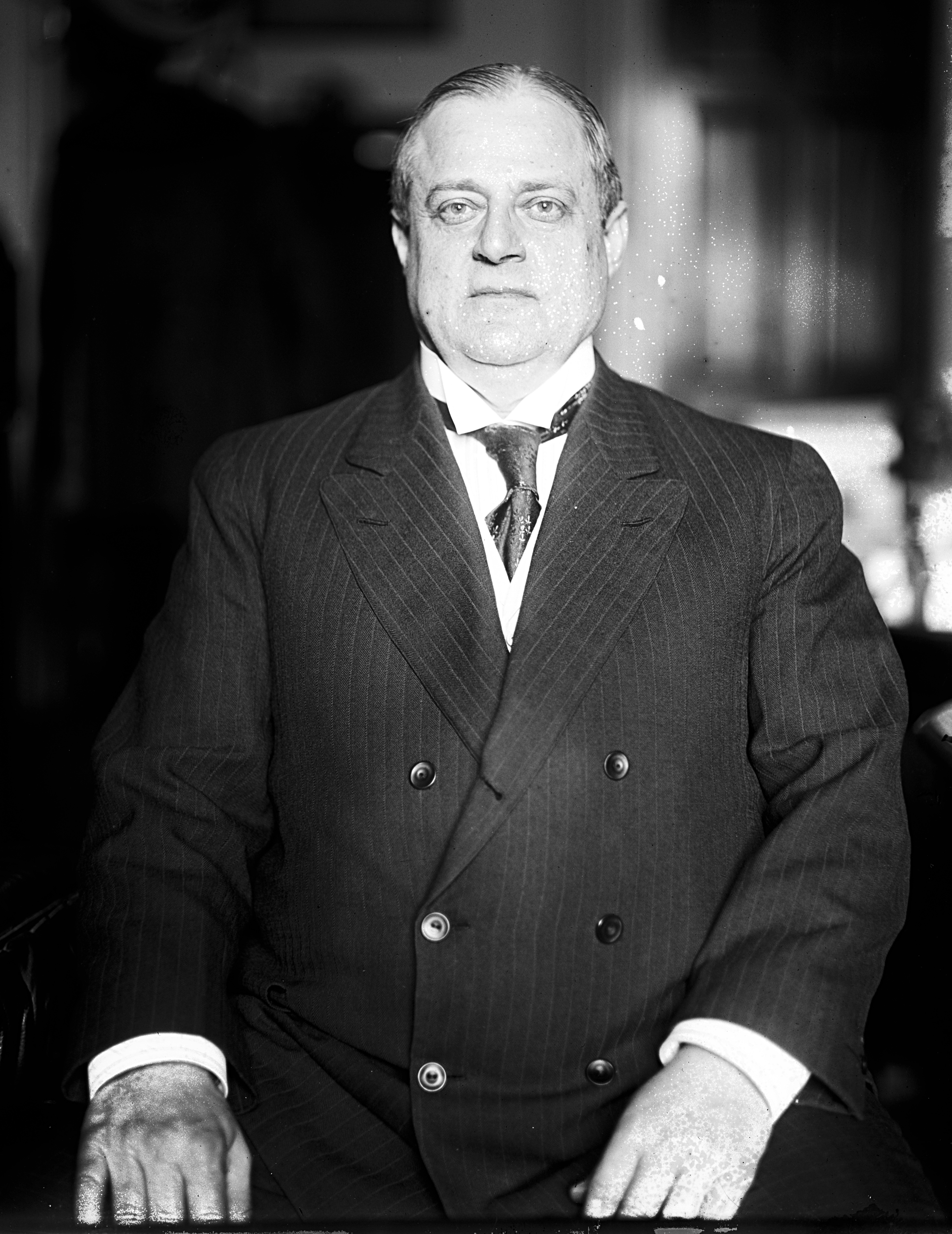 Benjamin K. Focht, US Representative from Pennsylvania